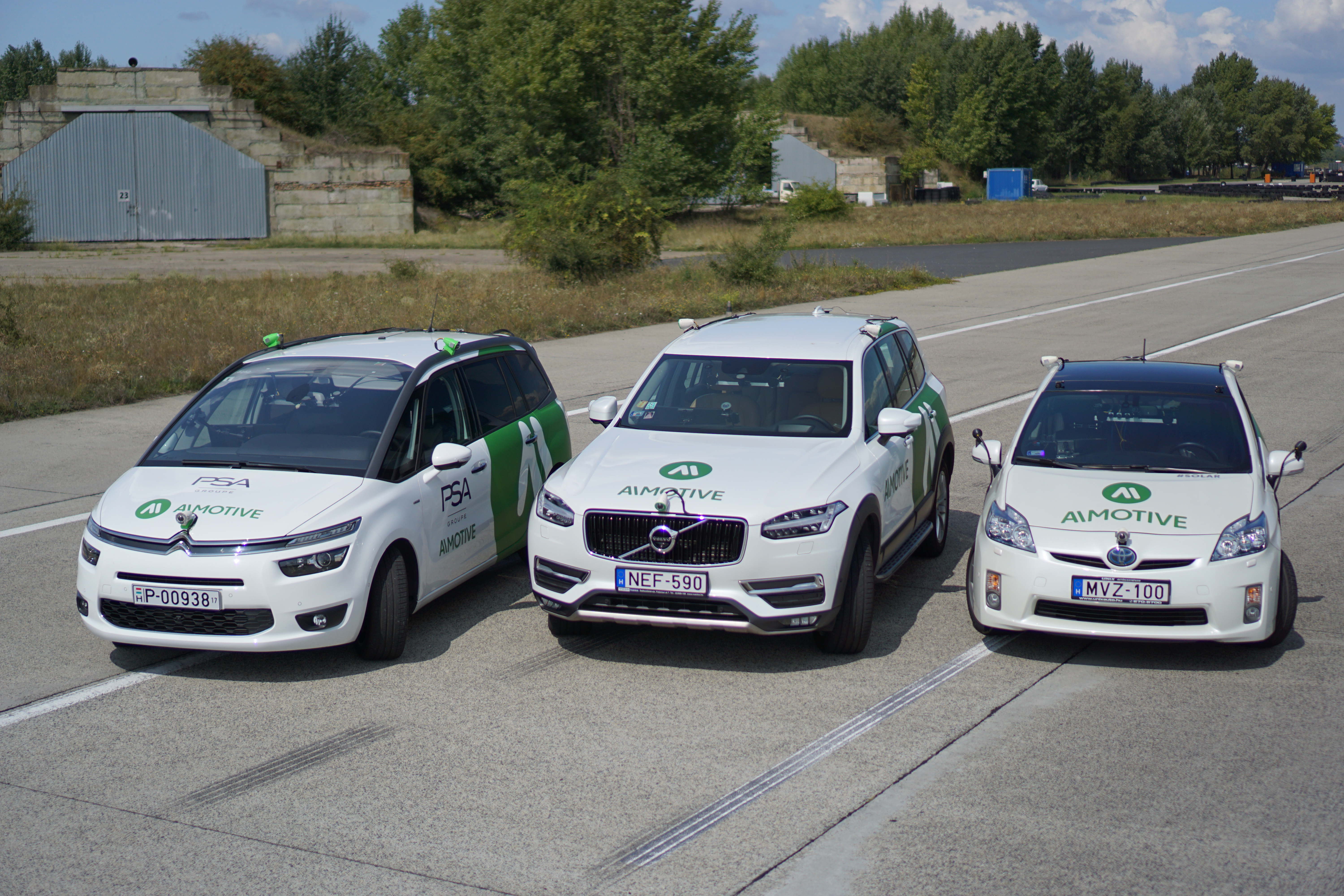 Three AImotive test vehicles, a Citroen C4 Picasso, a Volvo XC90 and a Toyota Prius.